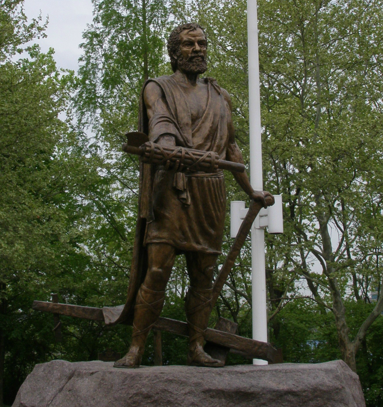 The statue of Cincinnatus at his plough in Cincinnati, Ohio.